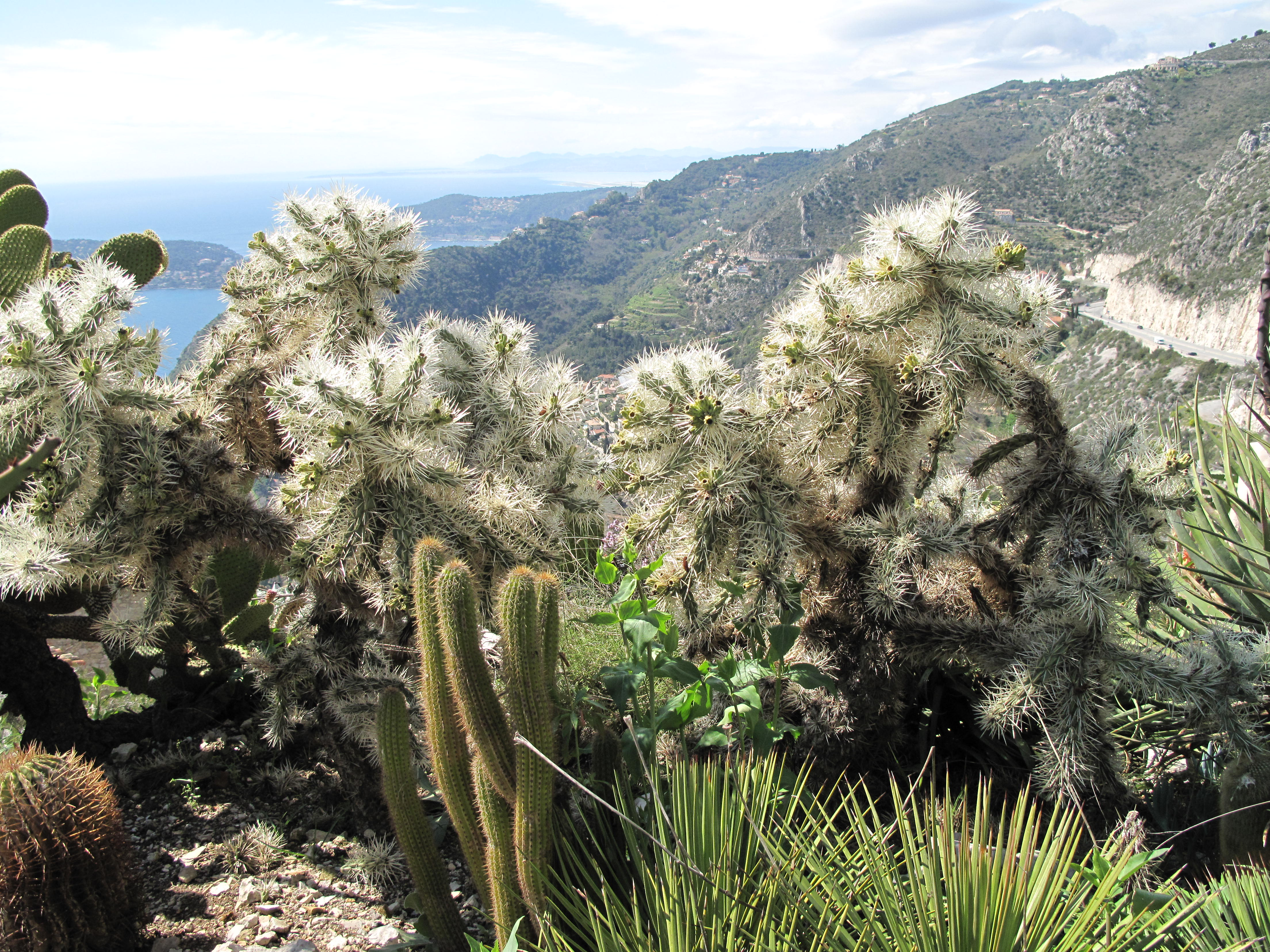 Cylindropuntia rosea in the botanical garden of Eze, France